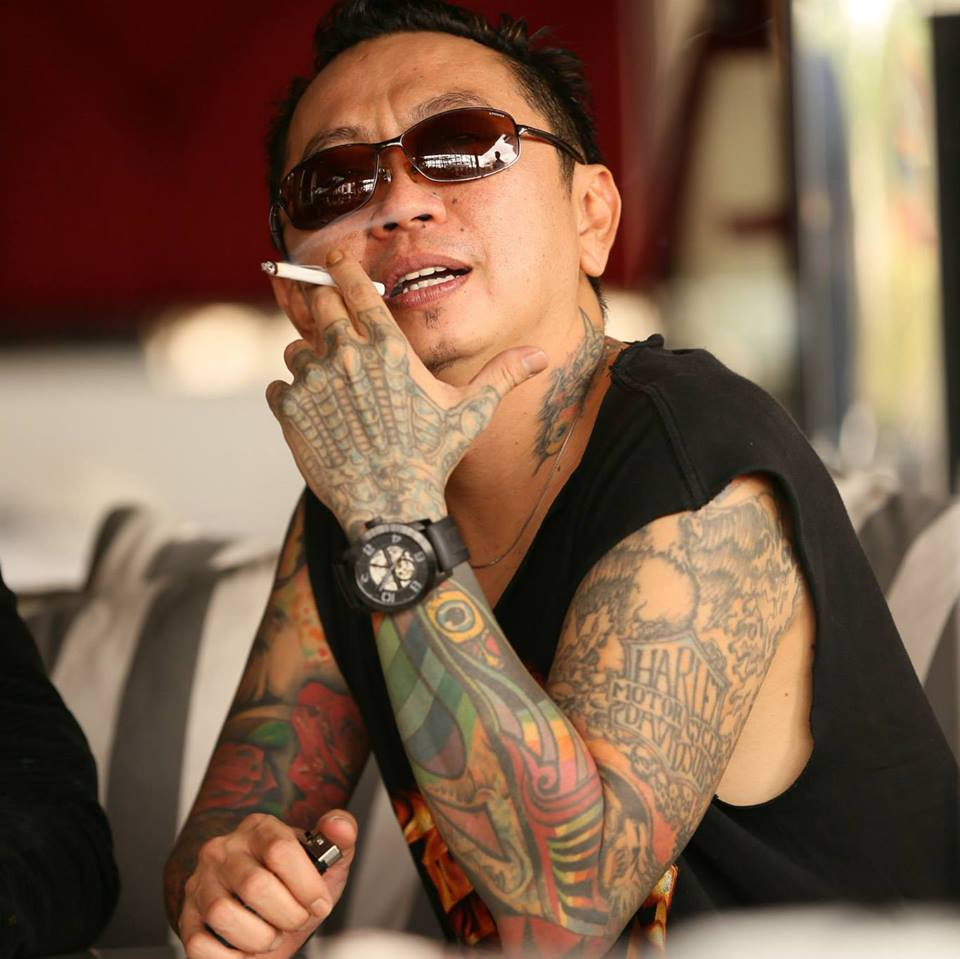 Dalam Sesi Foto Salah Satu Surat Kabar